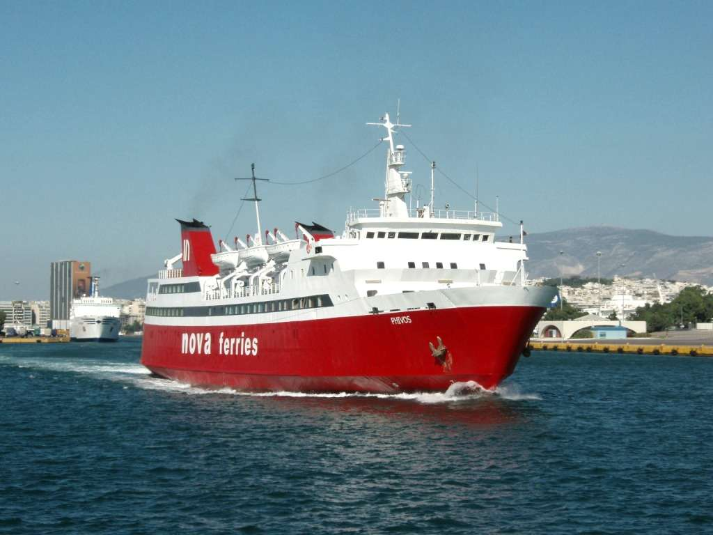 Ferryboat Fivos, SXUU, IMO 7825978